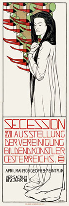 Poster for the 7th exhibition of the Vienna Secession 1903